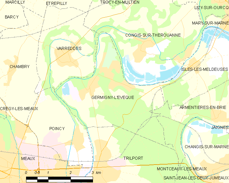 Map of French municipality Germigny-l'Évêque